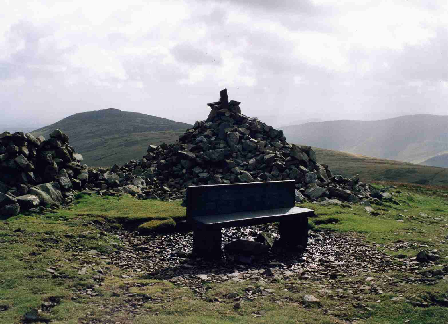 Personal picture taken by Mick Knapton